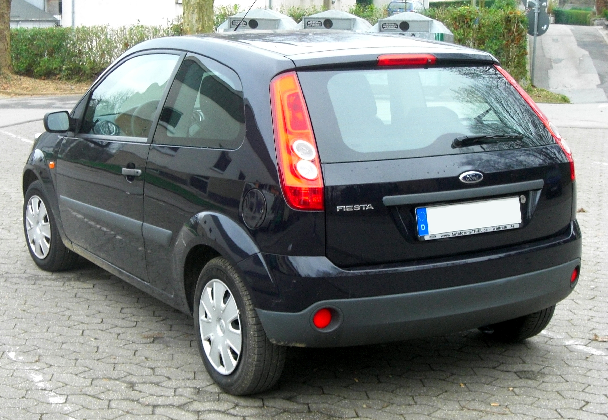 Description: Ford Fiesta MK5 Source: Matthias Other Version(s)